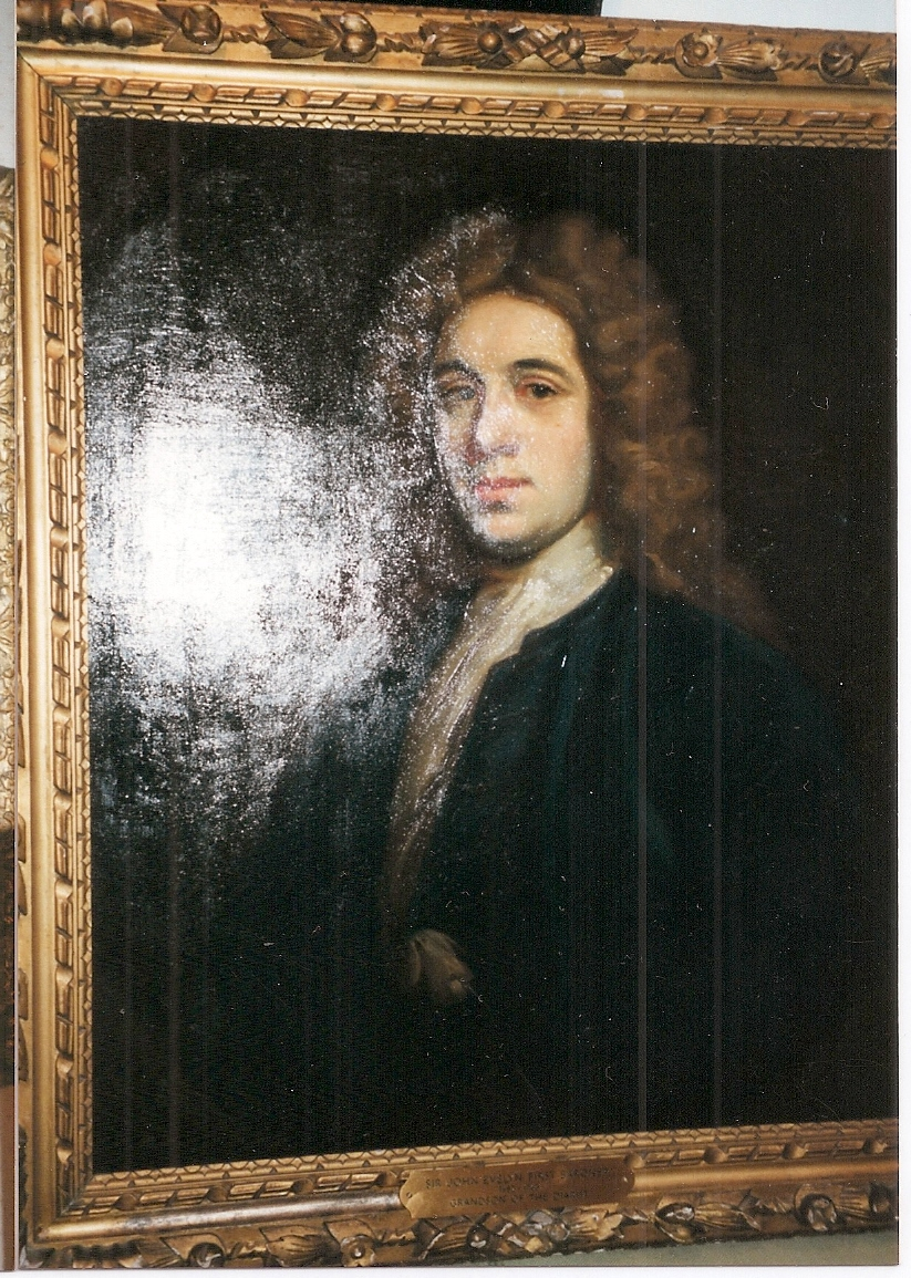 Sir John Evelyn of Wotton 2nd Bt MP. the gold plate at the bottom is incorrect.